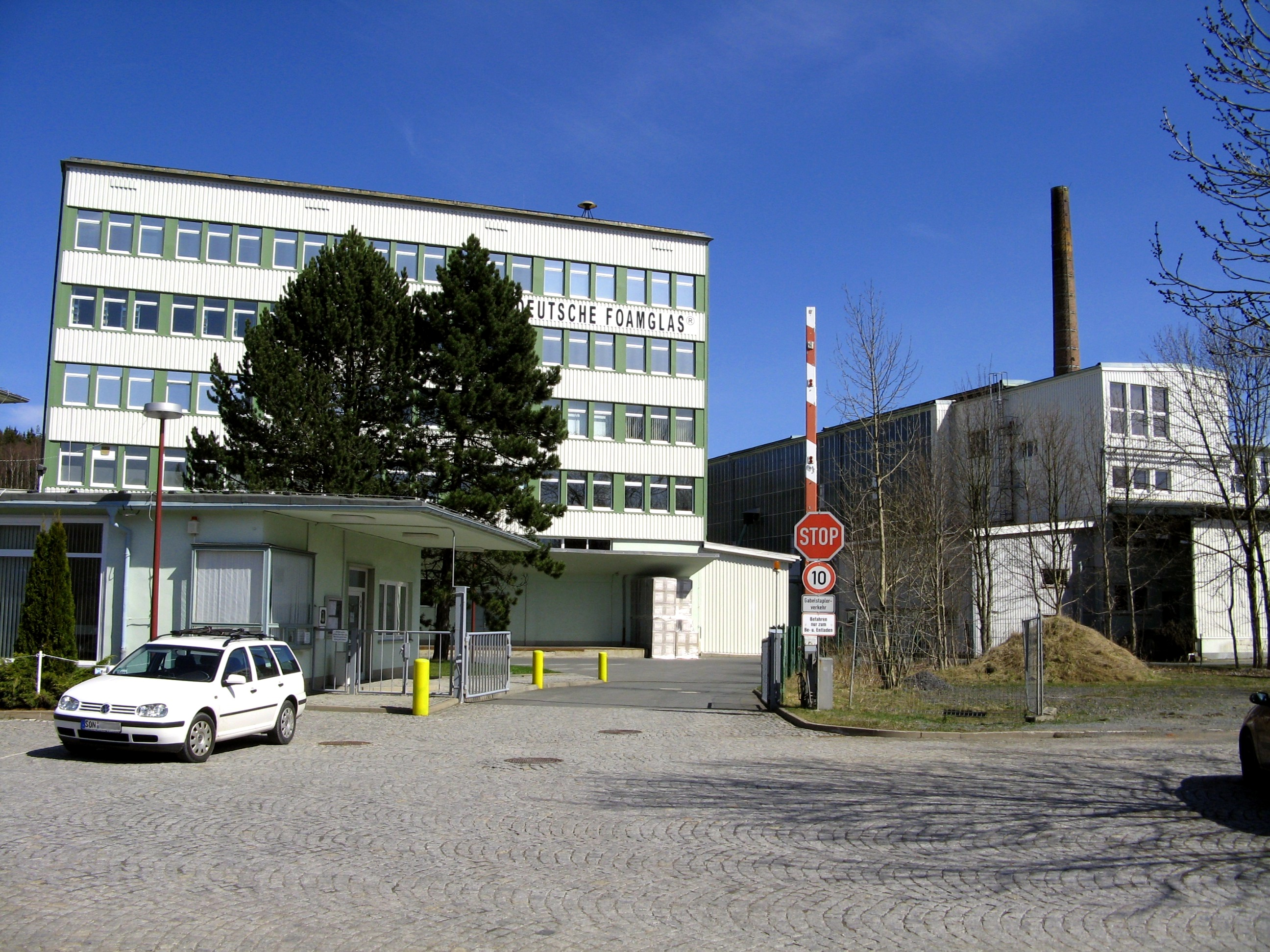 Pittsburgh Corning Deutsche Foamglass - Schmiedefeld (Lichtetal), Thuringia, Germany